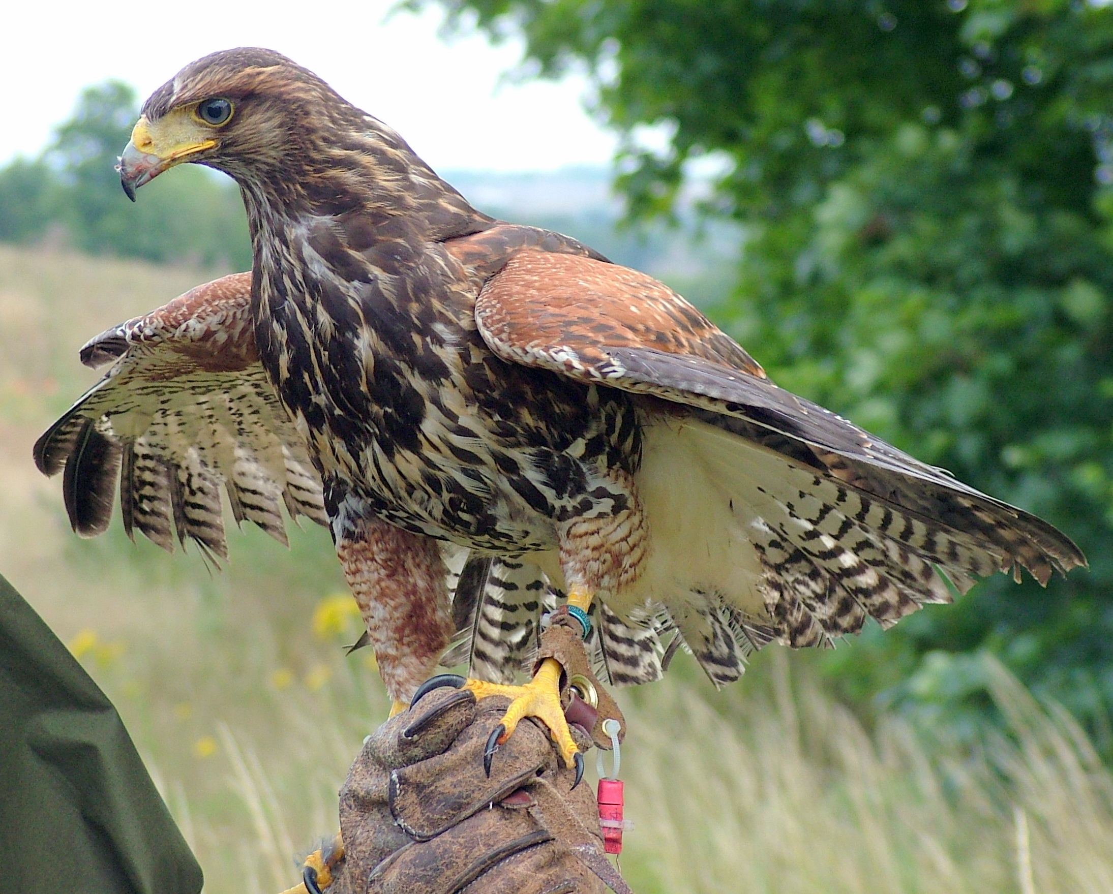 A domestic Harris' Hawk Parabuteo unicinctus (?, possibly hybrid with a Buteo sp.) during a falconry demonstration.